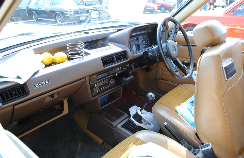 Honda Accord interior.